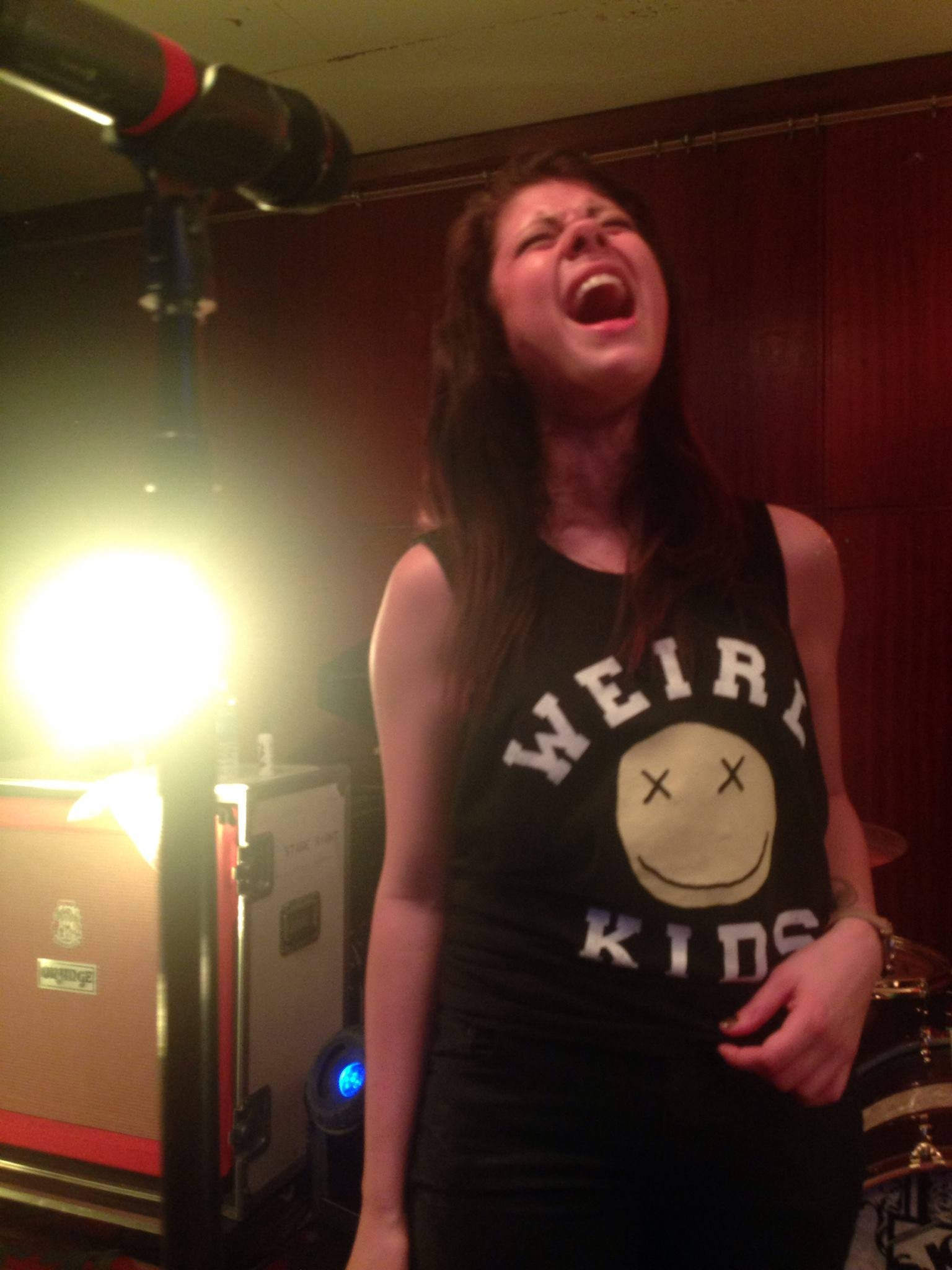 Tay Jardine at The First Unitarian Church in Philadelphia, PA.